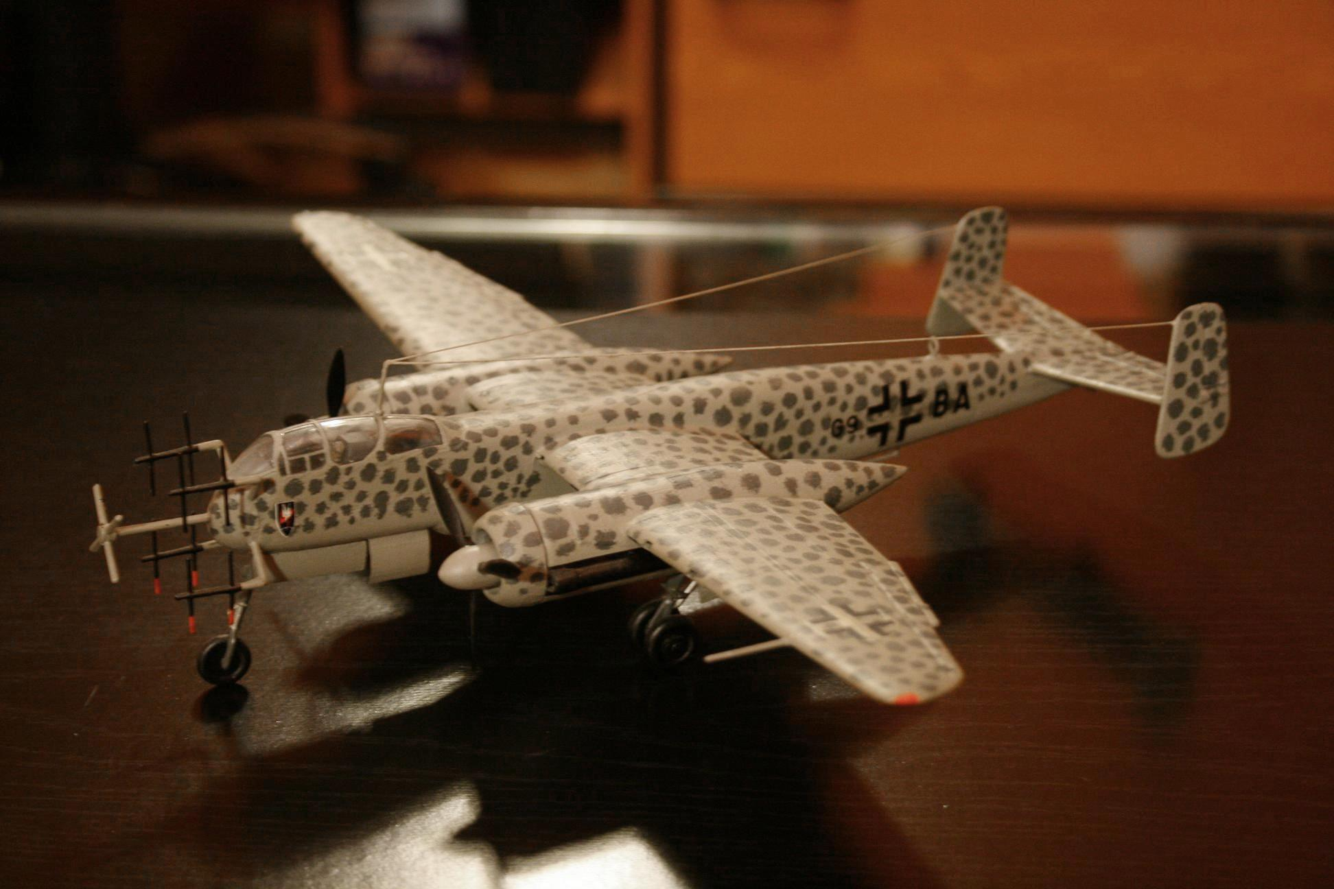 Heinkel He 219 Uhu, 1:72 Revell plastic model (4116-0389) with an unrealistic radar configuration.